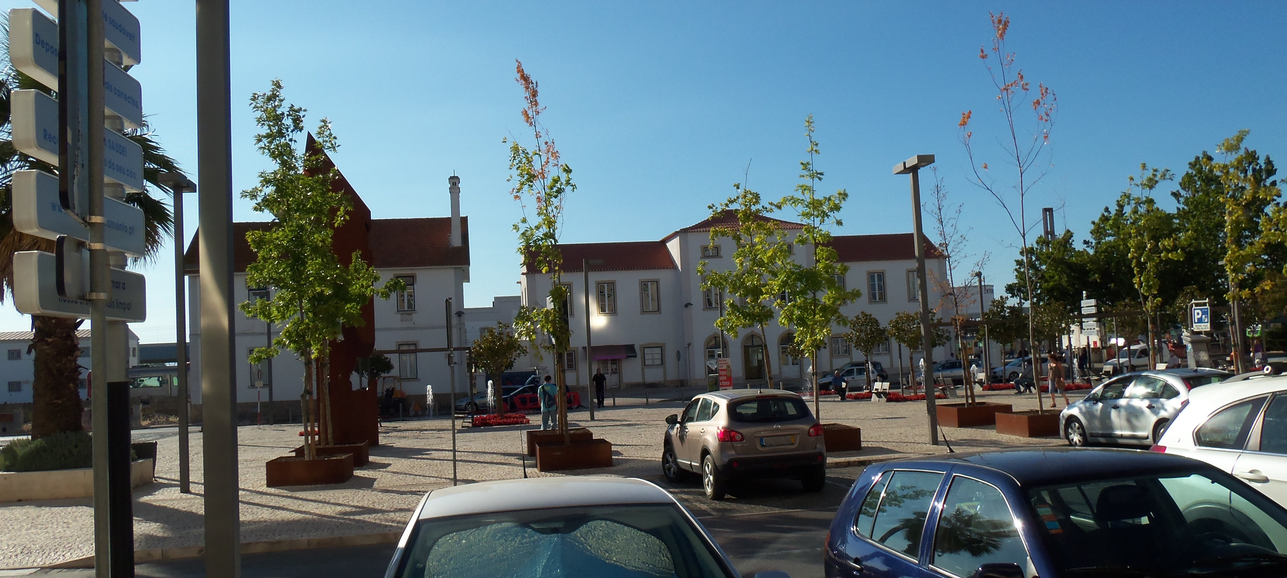 Largo Station and Railway station rail in the background image.